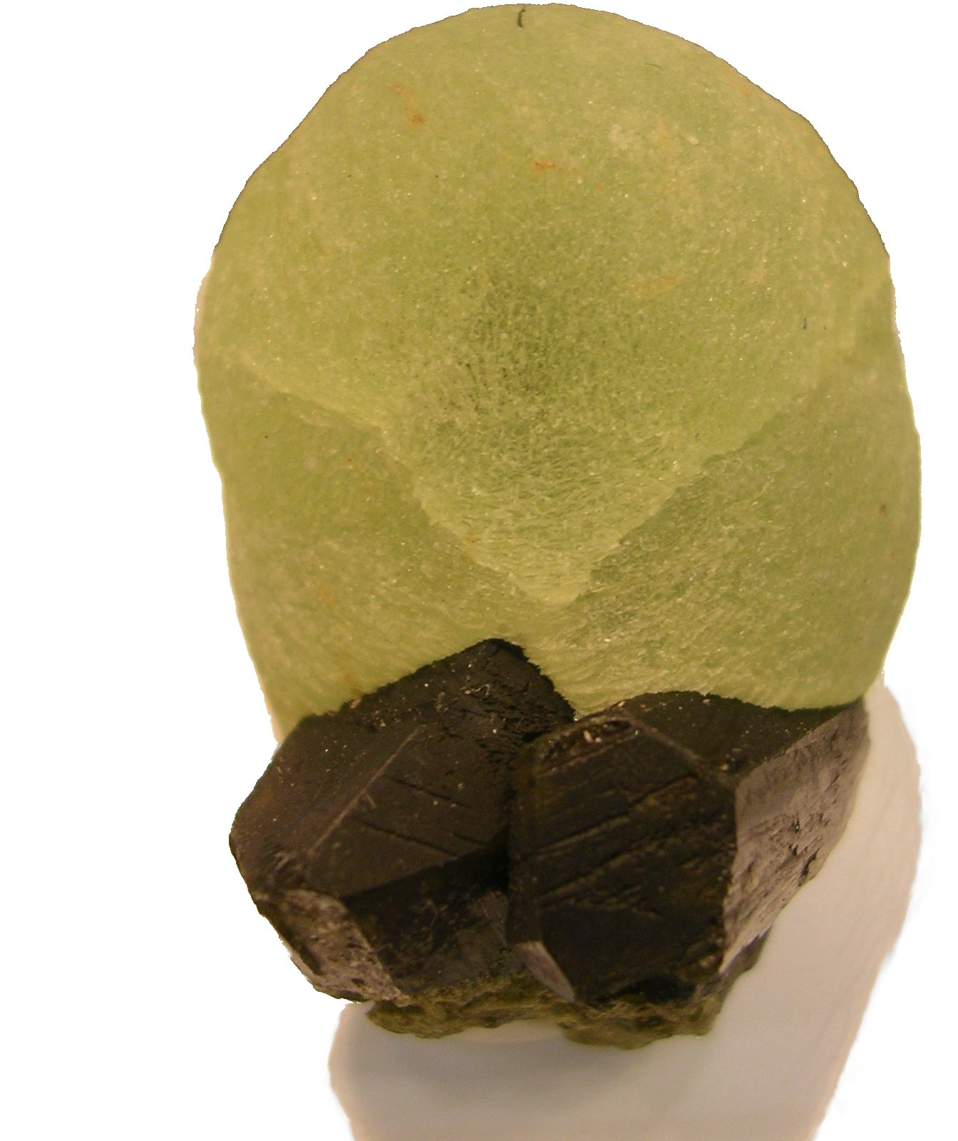 Name: Prehnite Epidote. Deposit Location: Diakpn, Nioro Du Sahel Kayes Region, Mali. Owner: Loranth Csanad, Budapest Foto Location: "Sejem mineralov in fosilov Tržič 2007" (